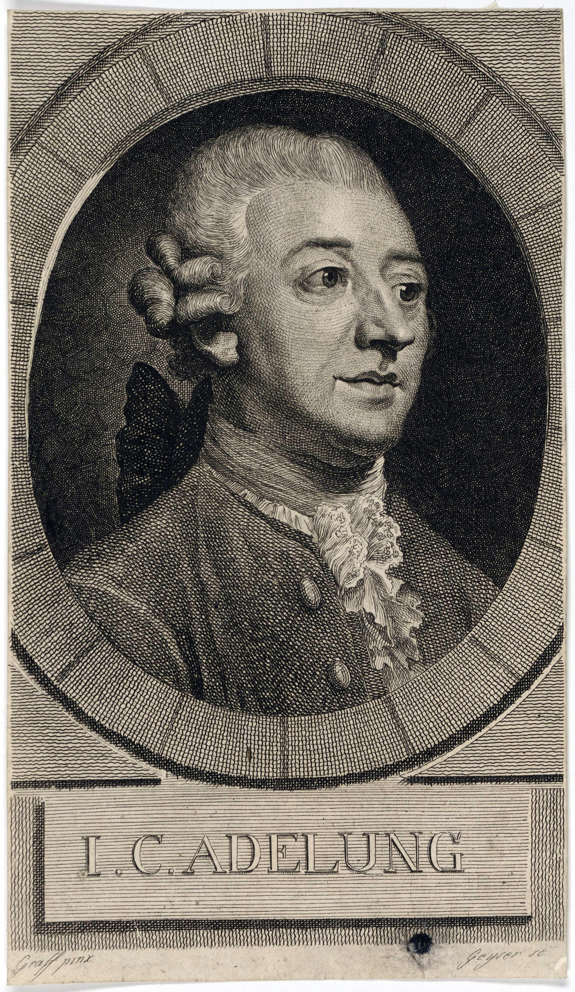 Depicted person: Johann Christoph Adelung